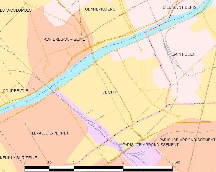 Map of French municipality Clichy